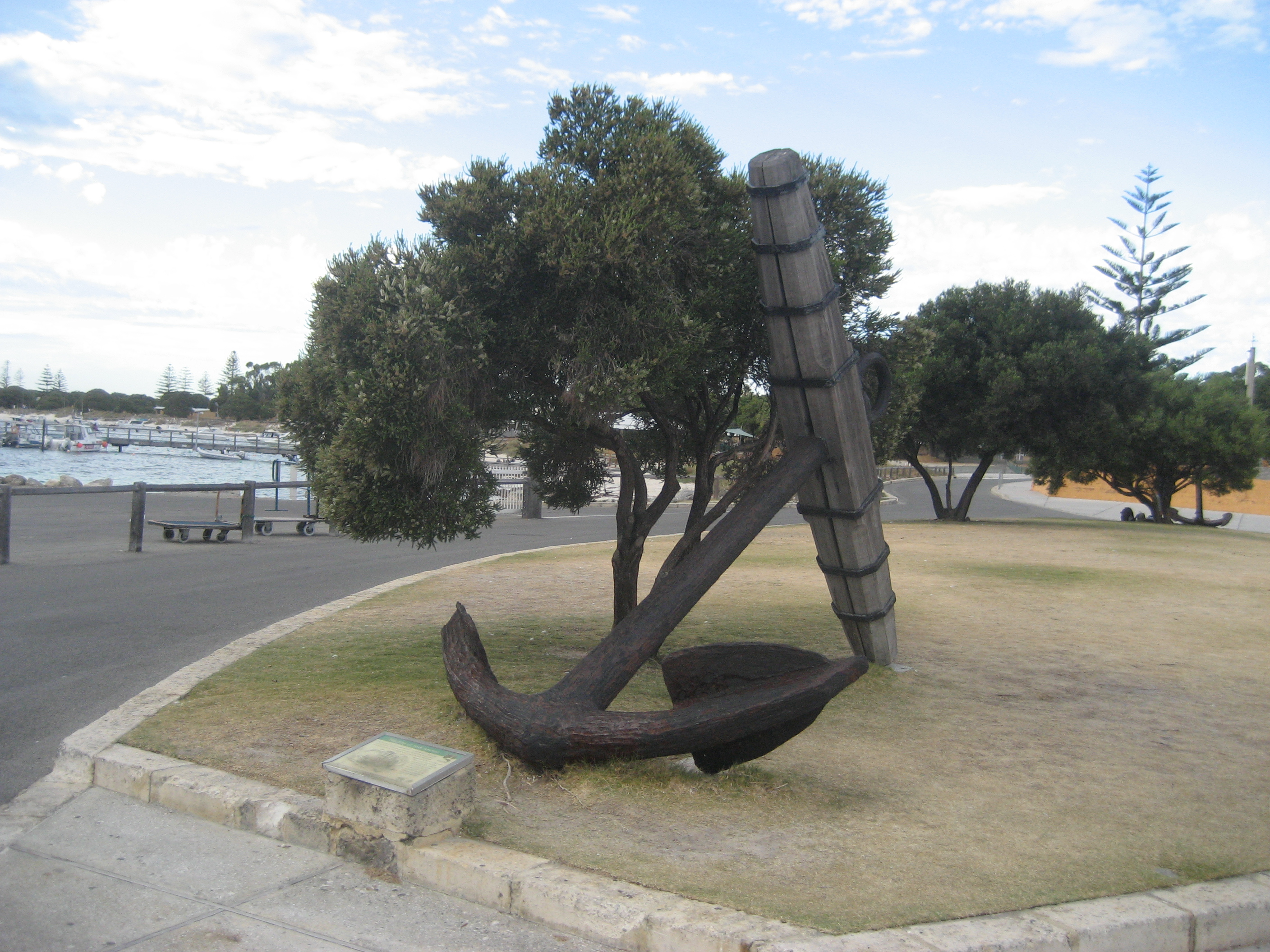 Rottnest Island, Western Australia. See also File:City of York anchor, Rottnest 2.jpg